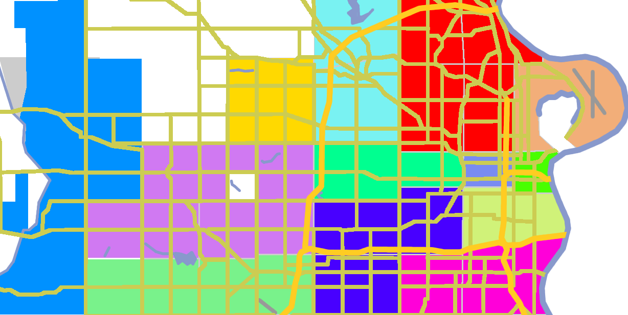 Primary Omaha neighborhood areas, with major streets and bodies of water. East-peach, North-red, North Central-cyan, Northwest-yellow, West-lavender, Central-sea green, Midtown-blue-gray, Downtown-lime, Southeast-yellow-green, South-pink, South Central-indigo, Millard-green, Elkhorn-blue